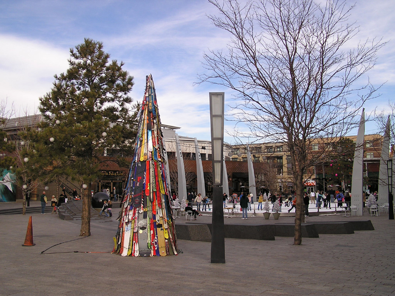 Christmas at the Belmar ice rink in Lakewood Colorado.